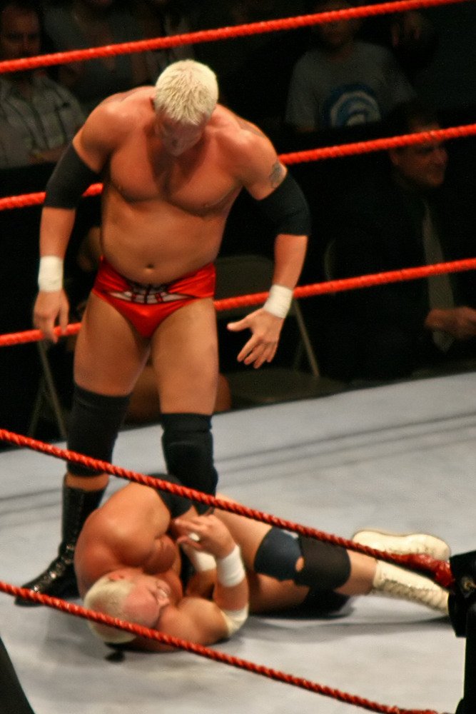 Mr. Kennedy (Ken Anderson) stands-over a battered Hardcore Holly. Taken during the WWE Raw - Survivor Series Tour, at Rod Laver Arena, Melbourne Park, Melbourne, Australia. Kennedy wrestled Bob 'Hardcore' Holly; the match was won by Kennedy pinning Holly with a roll-up.